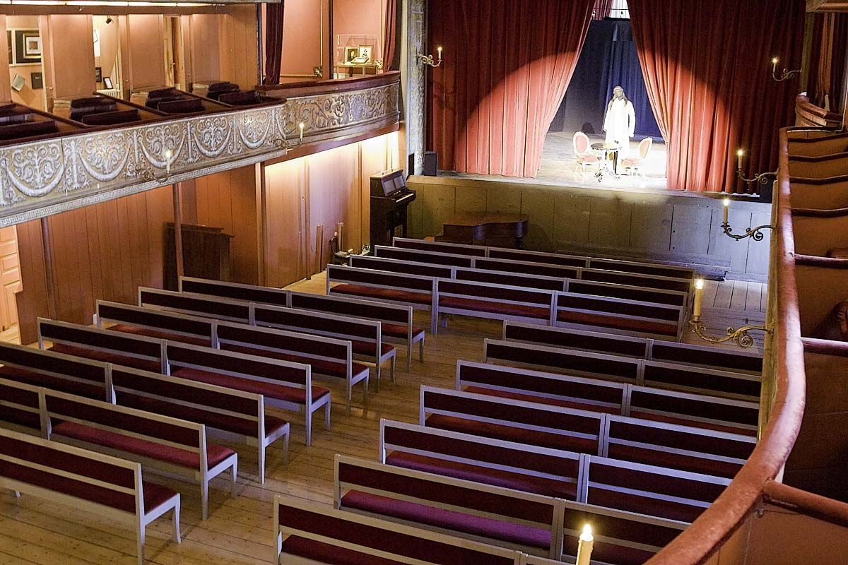 The interior of Hofteatret (The Court Theatre) by Christiansborg Castle. The teatre was opened in 1772, but not much is known about what it looked like as the interior was completely changed in 1842. The teater closed in 1881 and the furniture was subsequently sold. Since 1922 it has been the home of "Teatermuseet" (the Theatre Museum).